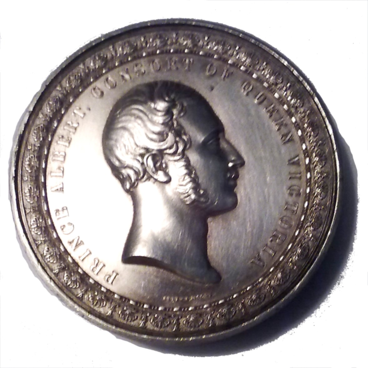 photo of medall from world exhibition 1851